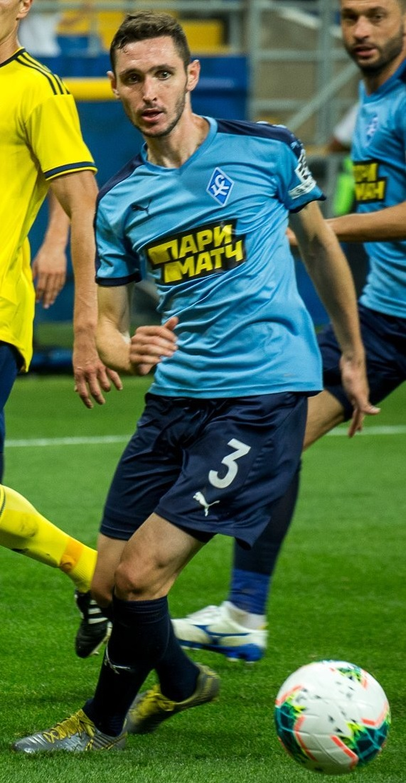 Nikita Chernov with PFC Krylia Sovetov Samara in a game against FC Rostov.